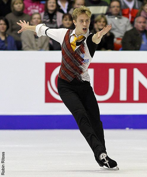 free skate image from the 2013 European Championship's